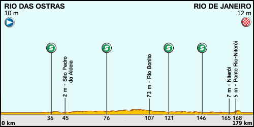 Profile of the 5th stage of the 2012 Tour do Rio